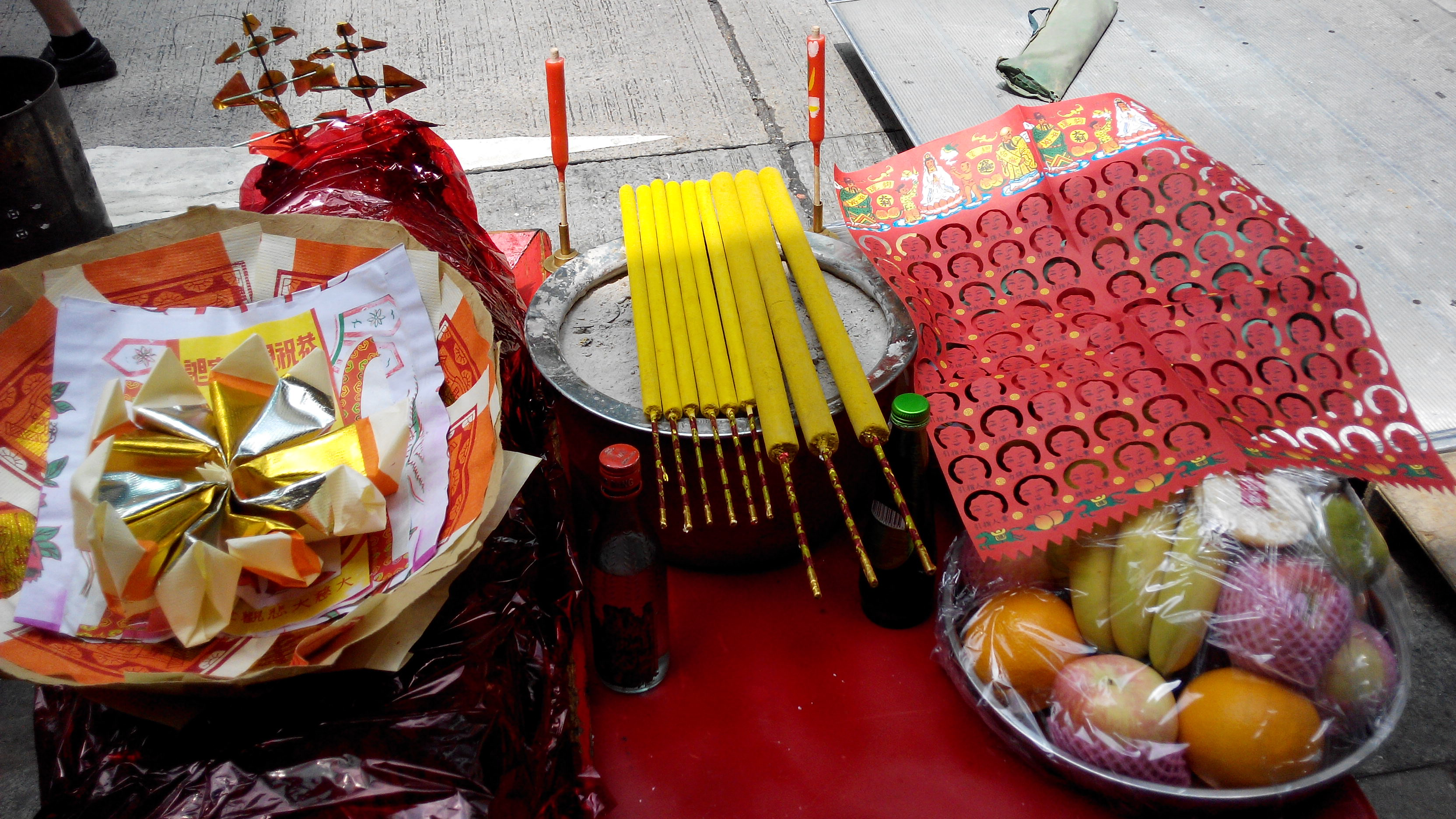 西營盤zh:正街某公司開張儀式, 燒zh:香zh:拜神祭祀, 分zh:燒肉, Grand opening of a company & Chinese prayers event in Centre Street, Sai Ying Pun, Hong Kong